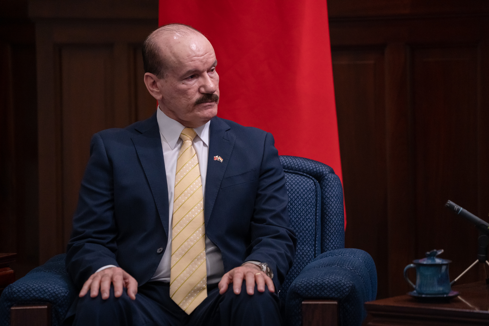 Official Photo by Wang Yu Ching / Office of the President